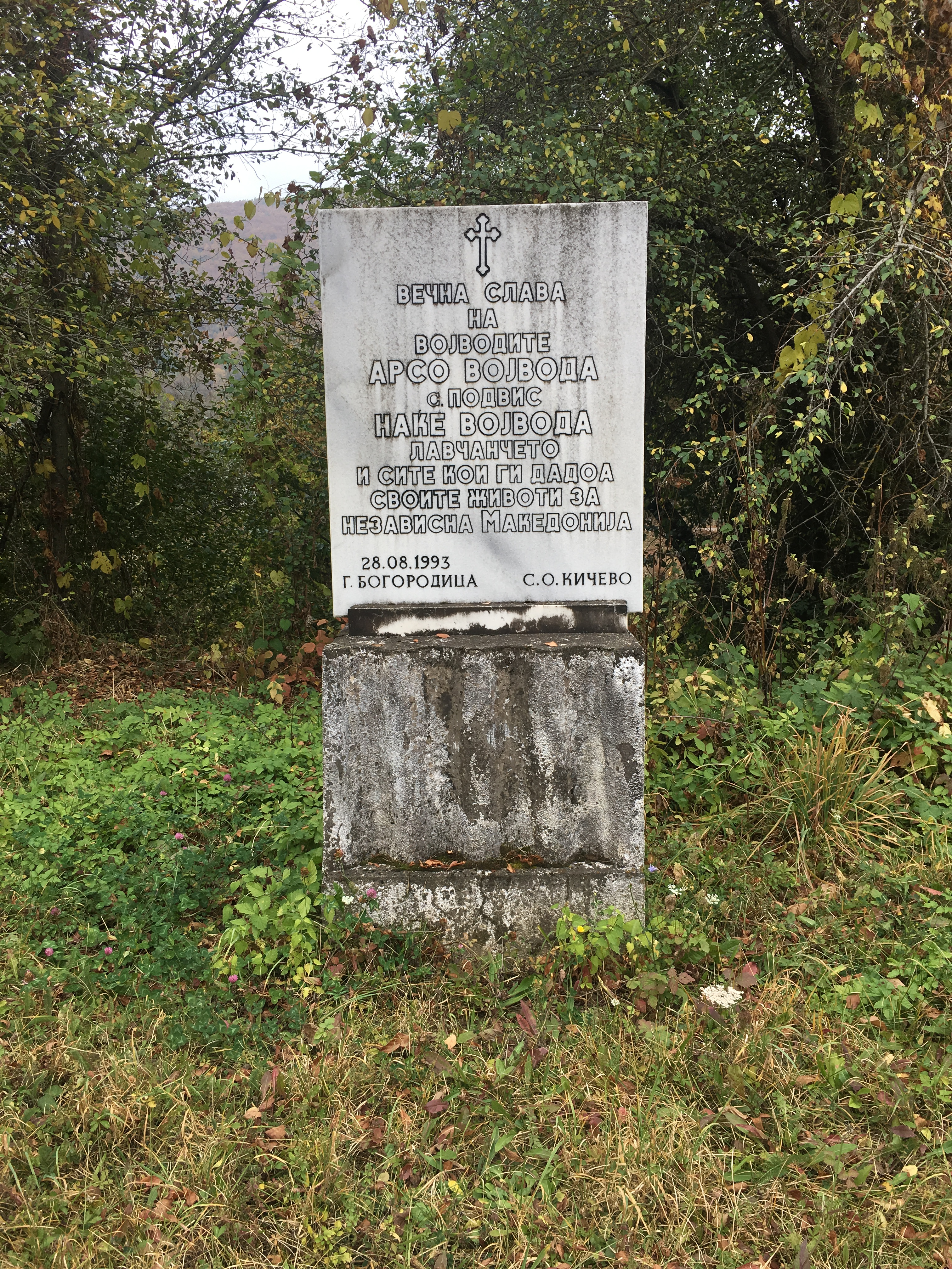 Wikiexpedition to Kopačka